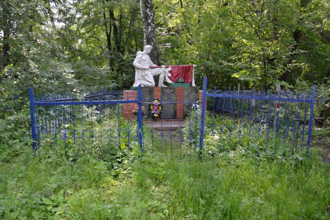 Братская могила в селе Кобылино